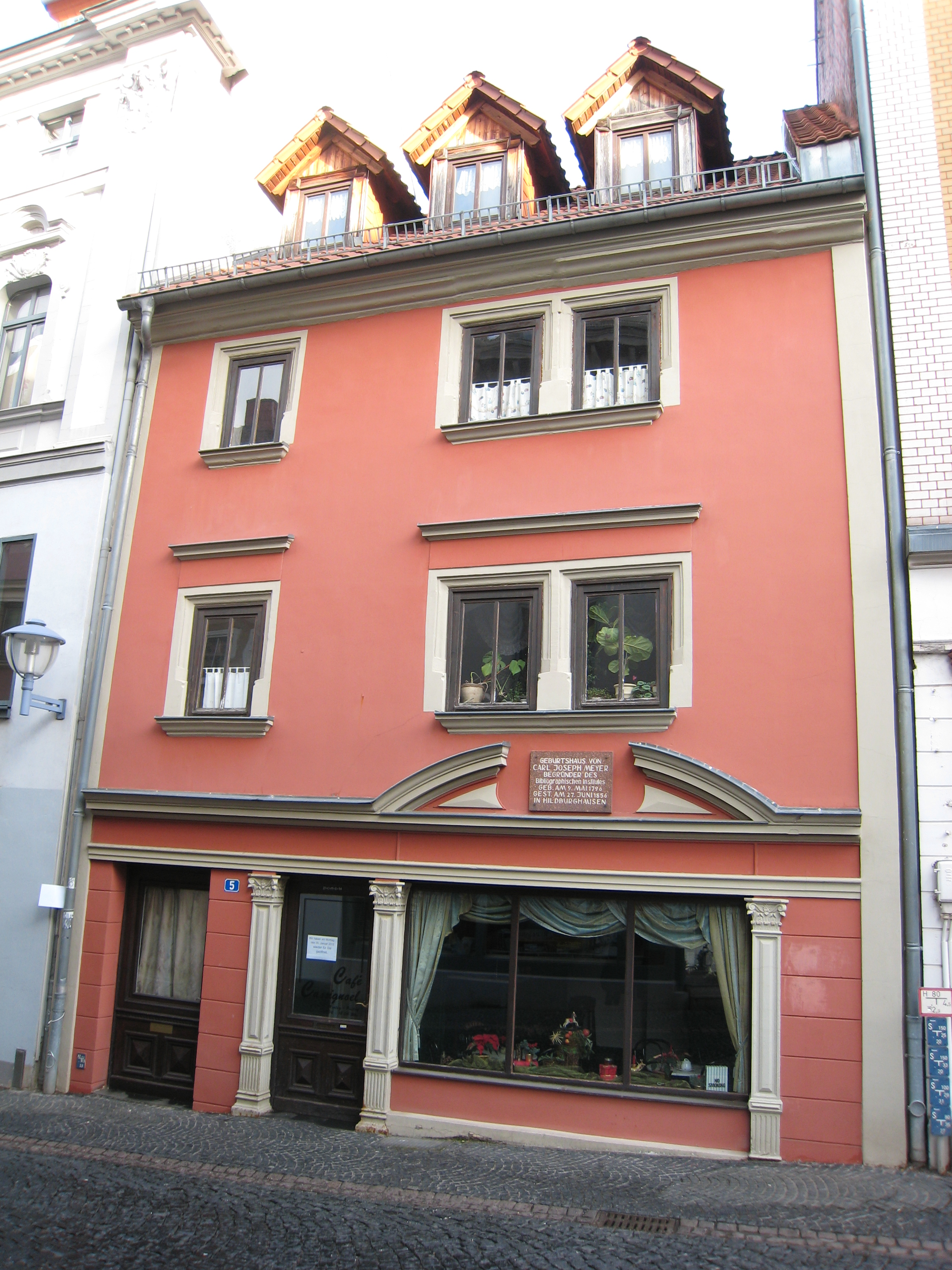 Birthplace of Joseph Meyer, Querstrasse 5